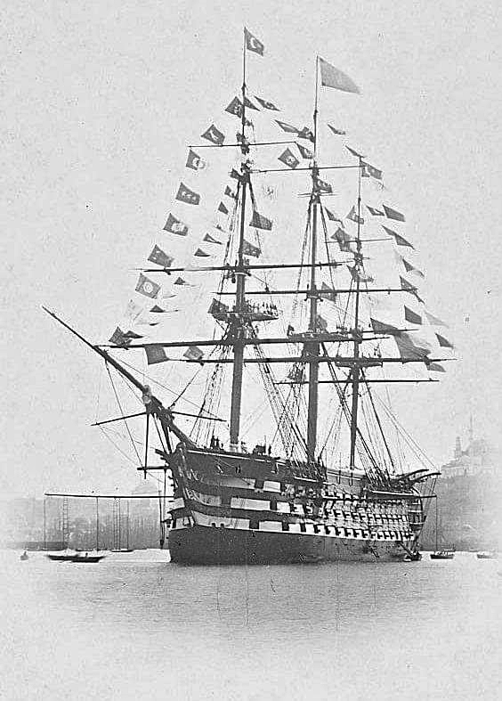 Mahmudiye (1829), ordered by the Ottoman Sultan Mahmud II and built by the Imperial Naval Arsenal on the Golden Horn in Constantinople, was for many years the largest warship in the world. The 201 x 56 kadem (1 kadem = 37.887 cm) or 76.15 m × 21.22 m (249.8 ft × 69.6 ft) (kadem, which translates as "foot", is often misinterpreted as equivalent in length to one imperial foot, hence the wrongly converted dimensions of "201 x 56 ft, or 62 x 17 m" in some sources) ship-of-the-line was armed with 128 cannons on 3 decks and carried 1,280 sailors on board. She participated in many important naval battles, including the Siege of Sevastopol (1854-1855) during the Crimean War (1854-1856). She was decommissioned in 1874.